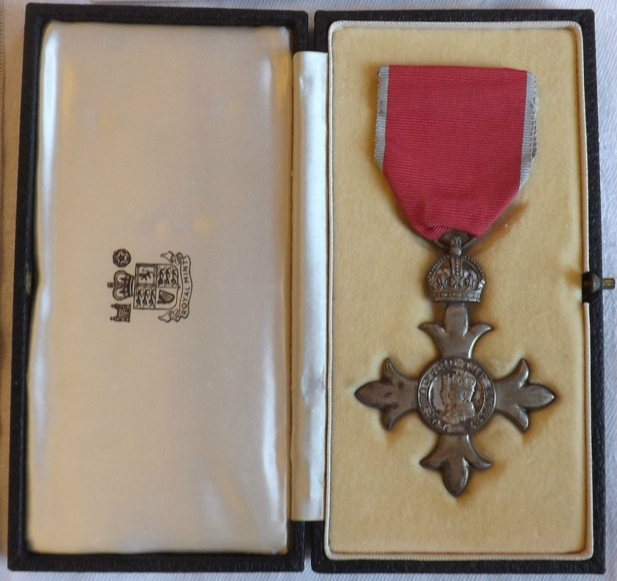 MBE George 6th